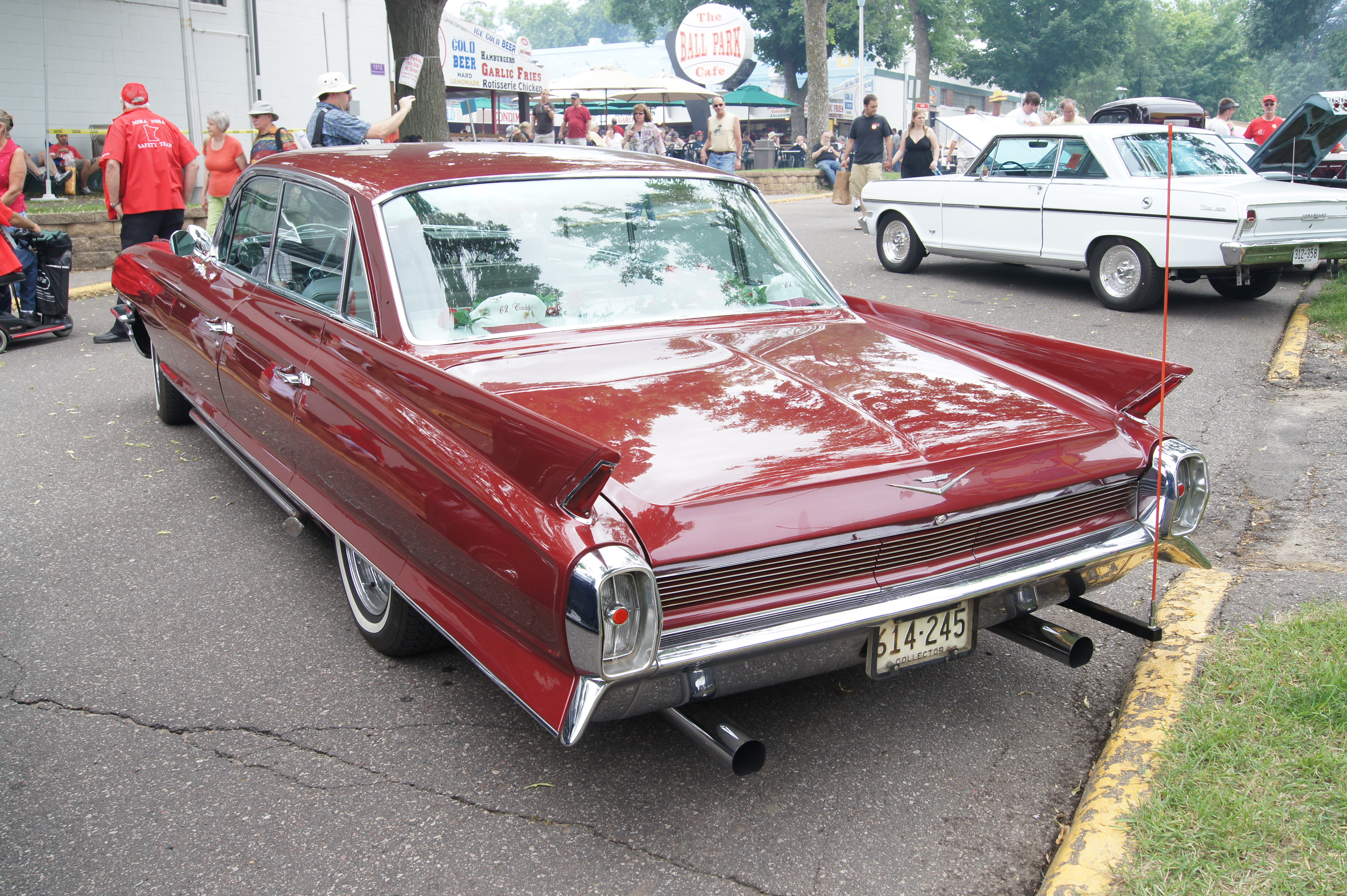 Minnesota Street Rod Association 39th Annual "Back to the Fifties" June 2012 Minnesota State Fairgrounds St. Paul MN